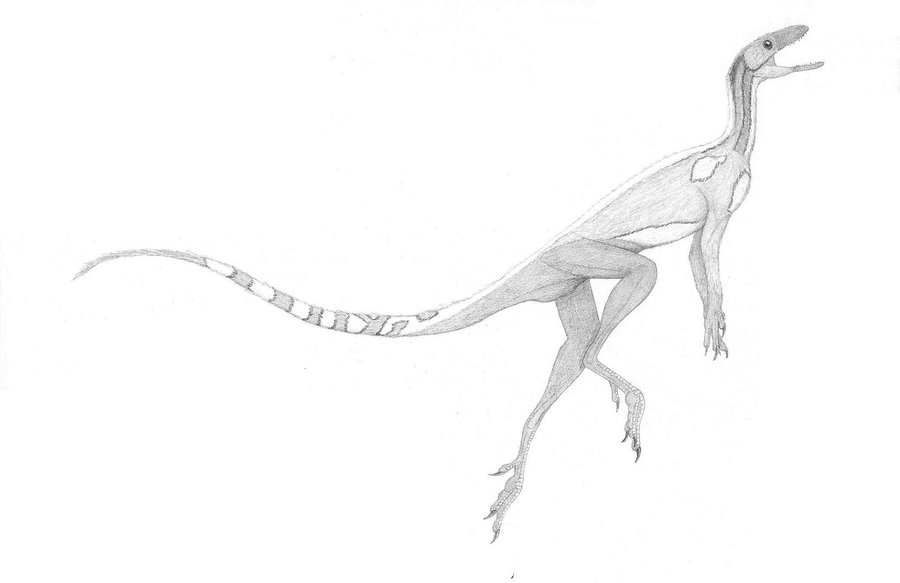 Reconstruction of Triassic ornithodiran Marasuchus.